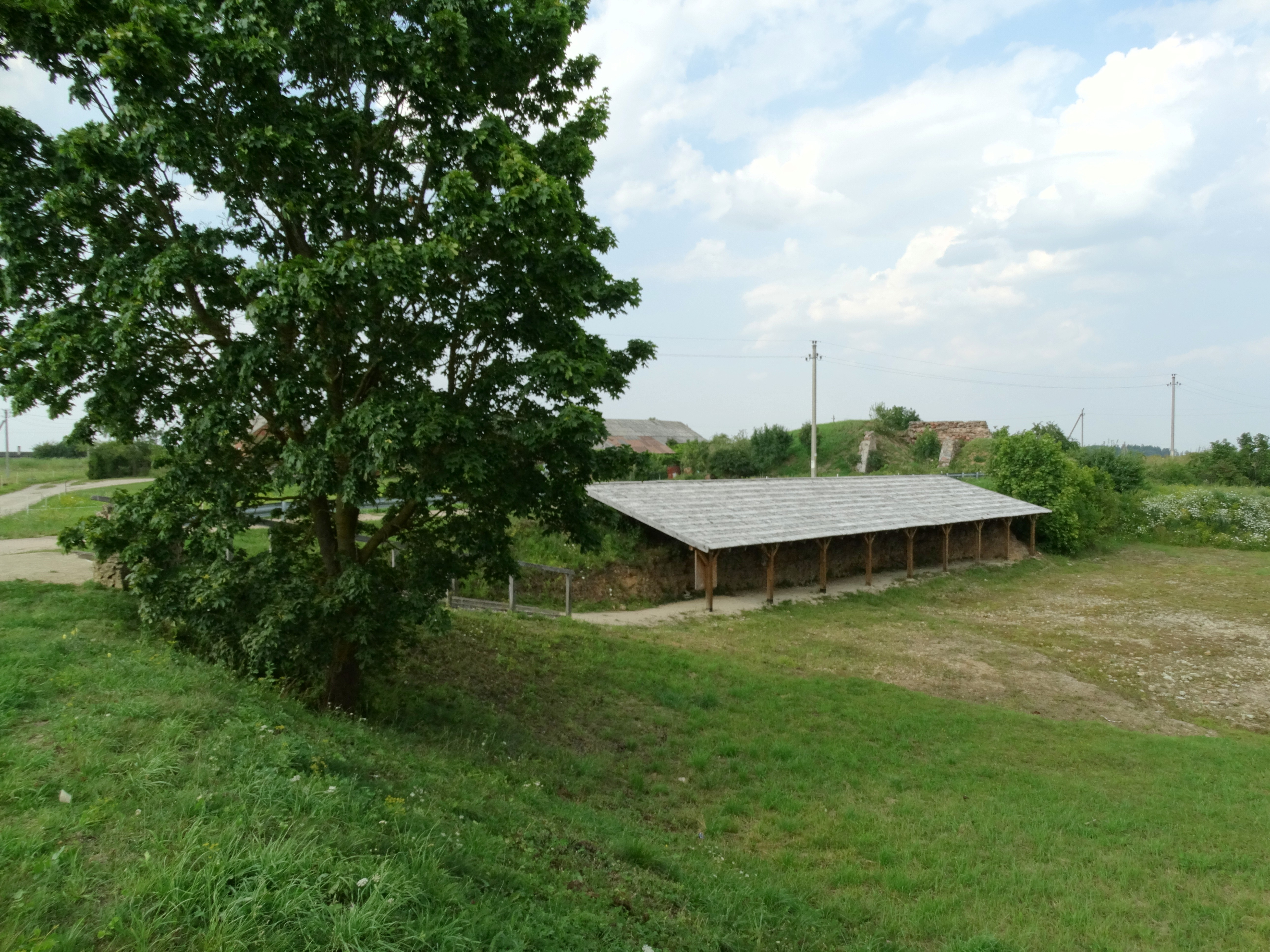 Dolomite outcrop, Žagarė, Lithuania